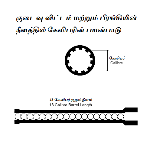 Caliber as a measurement of barrel bore and length